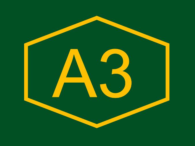 A3 Motorway Cyprus